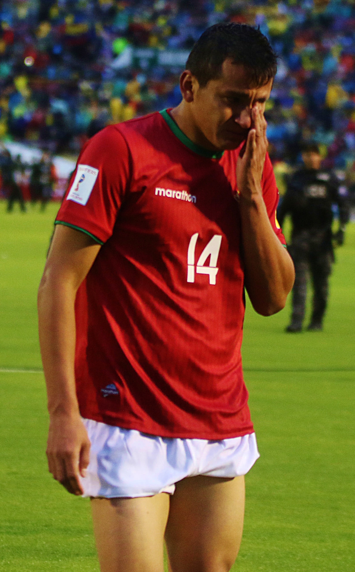 Jaime Arrascaita